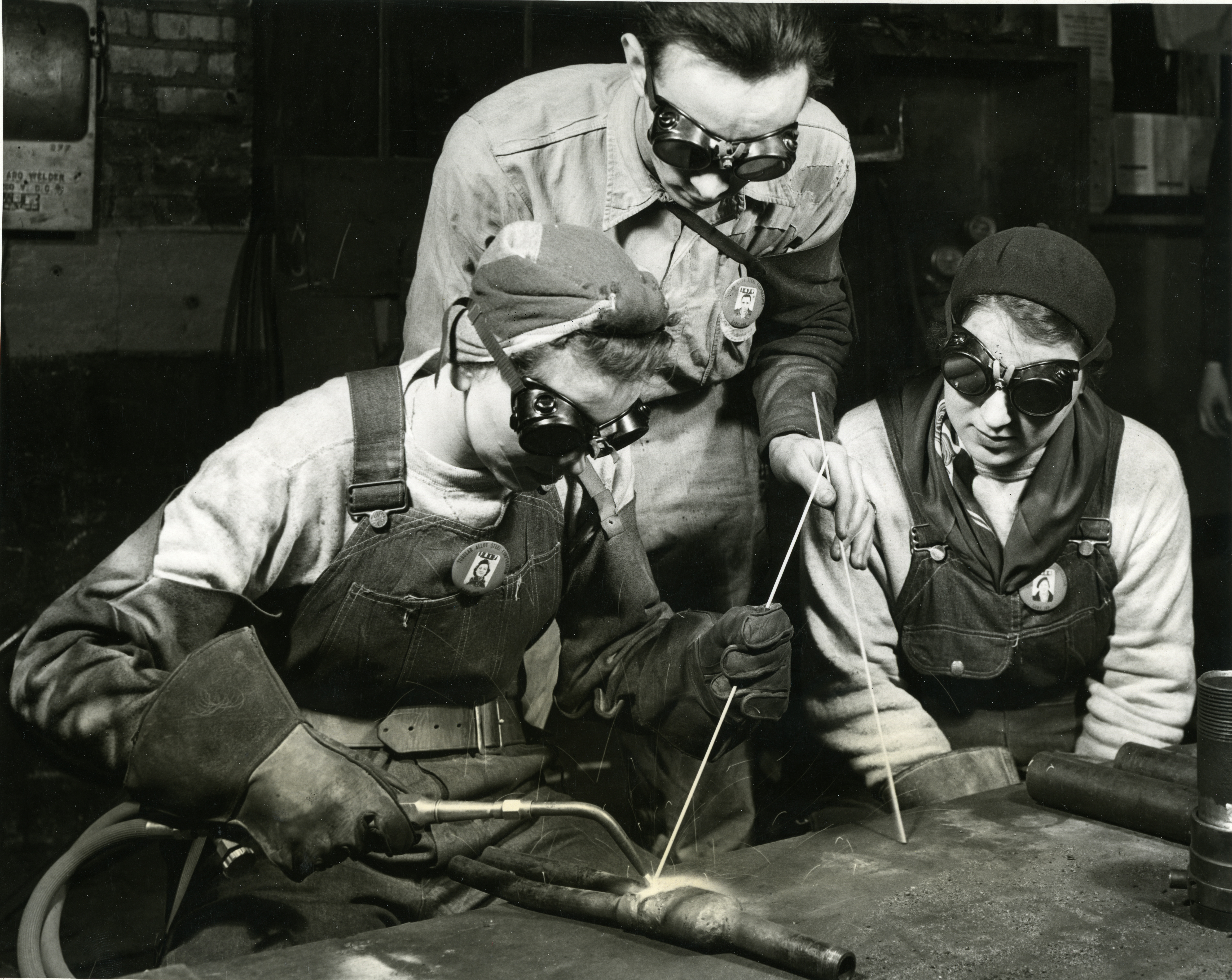 General notes: Peggy Bridgeman at the left demonstrates to Ruth Harris the correct technique while their instructor, Lee Fiscus, looks on attentively, in the Gary plant of the Tubular Alloy Steel Corporation, United States Steel Corporation subsidiary. Peggy is acclaimed by her superiors to be one of the most skilled welders they have had working with them.